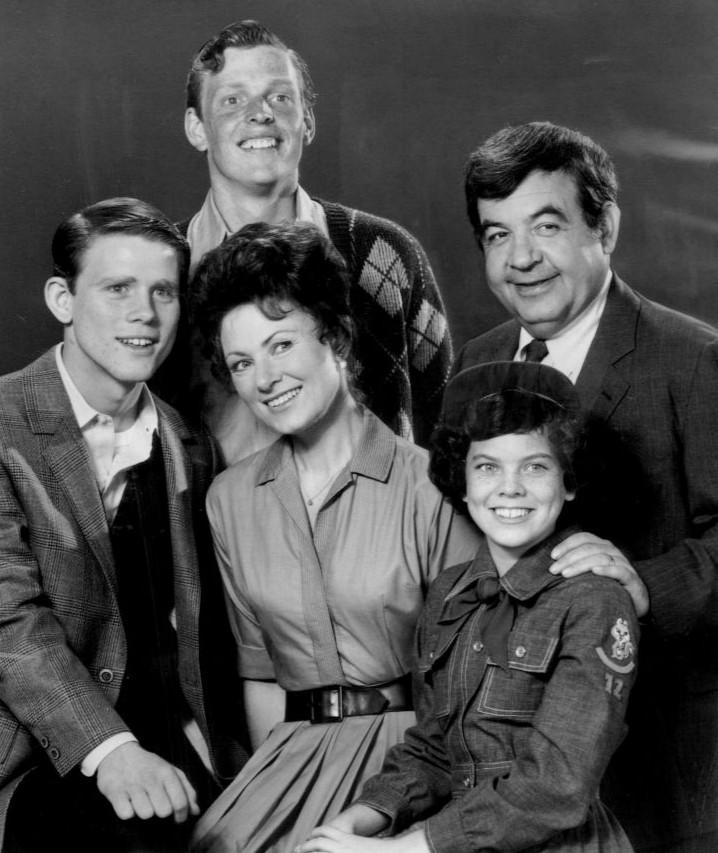 Photo of the Cunningham family from the television program Happy Days. Back from left: Ron Howard (Richie), Gavan O'Herlihy (Chuck - two actors played the role before the character was written out), Tom Bosley (Howard). Front: Marion Ross (Marion), Erin Moran (Joanie).